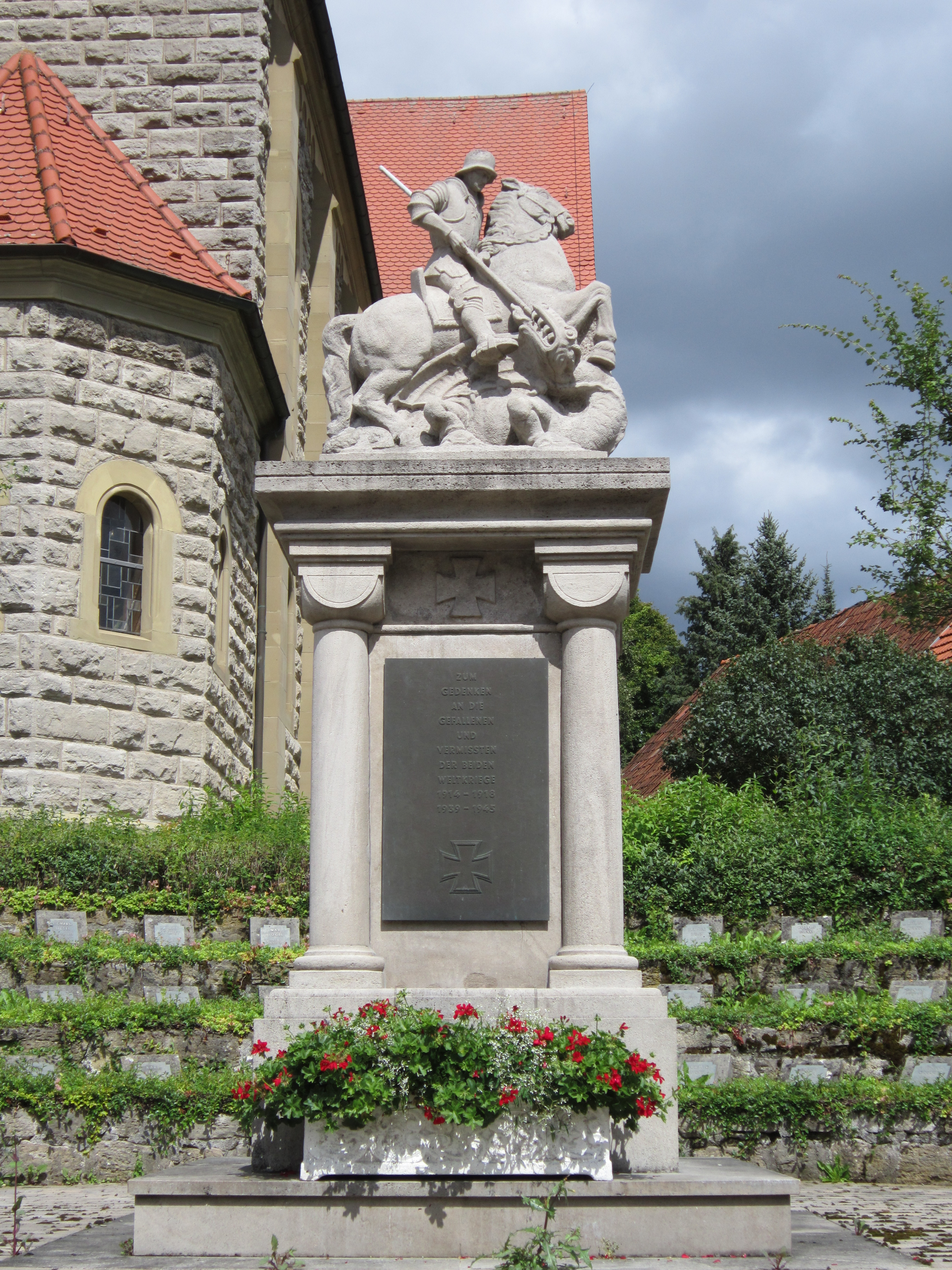 War Memorial in Reiterswiesen, a quarter of the German spa town of Bad Kissingen in Lower Franconia (Bavaria), in memory of the victims of the Franco-Prussian War and WWI. It was created in 1928 and is located in front of the St.Laurentius Church.